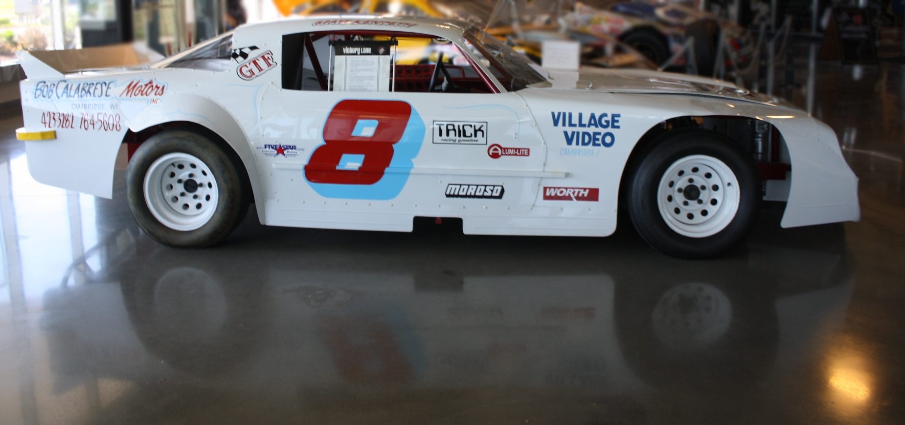 The sportsman car that NASCAR driver Matt Kenseth drove at Columbus 151 Speedway on display in his fan museum.